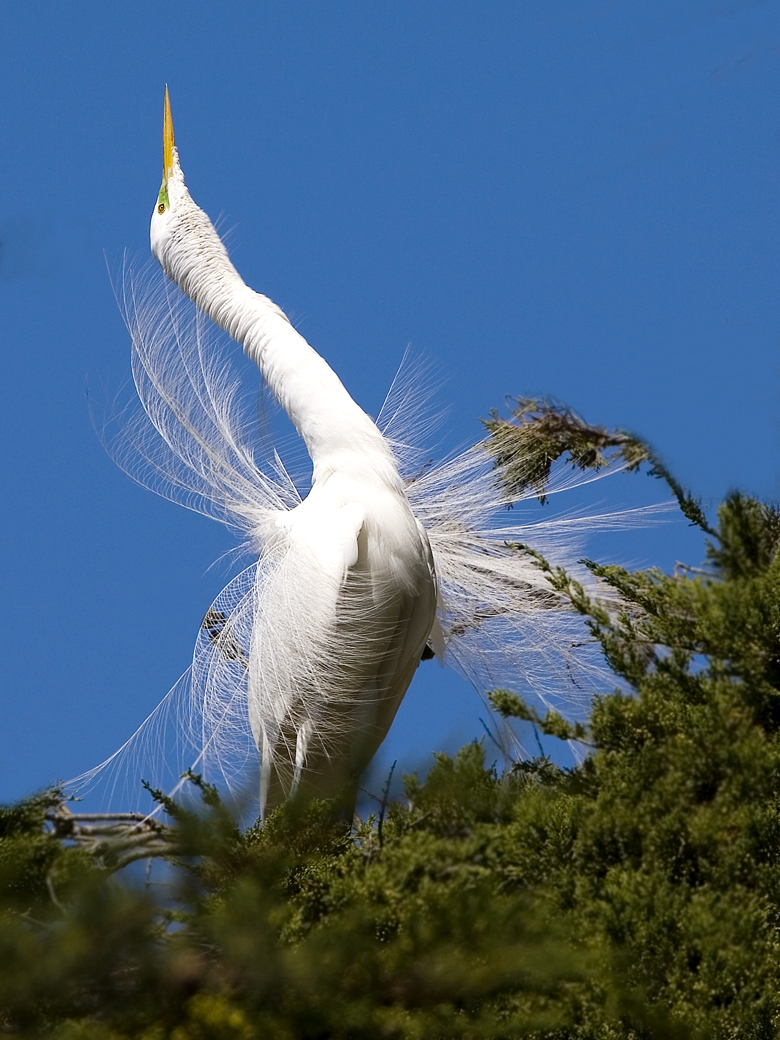 Great Egret (Ardea alba) in Heron Rookery, Morro Bay, CA - photo by Mike Baird